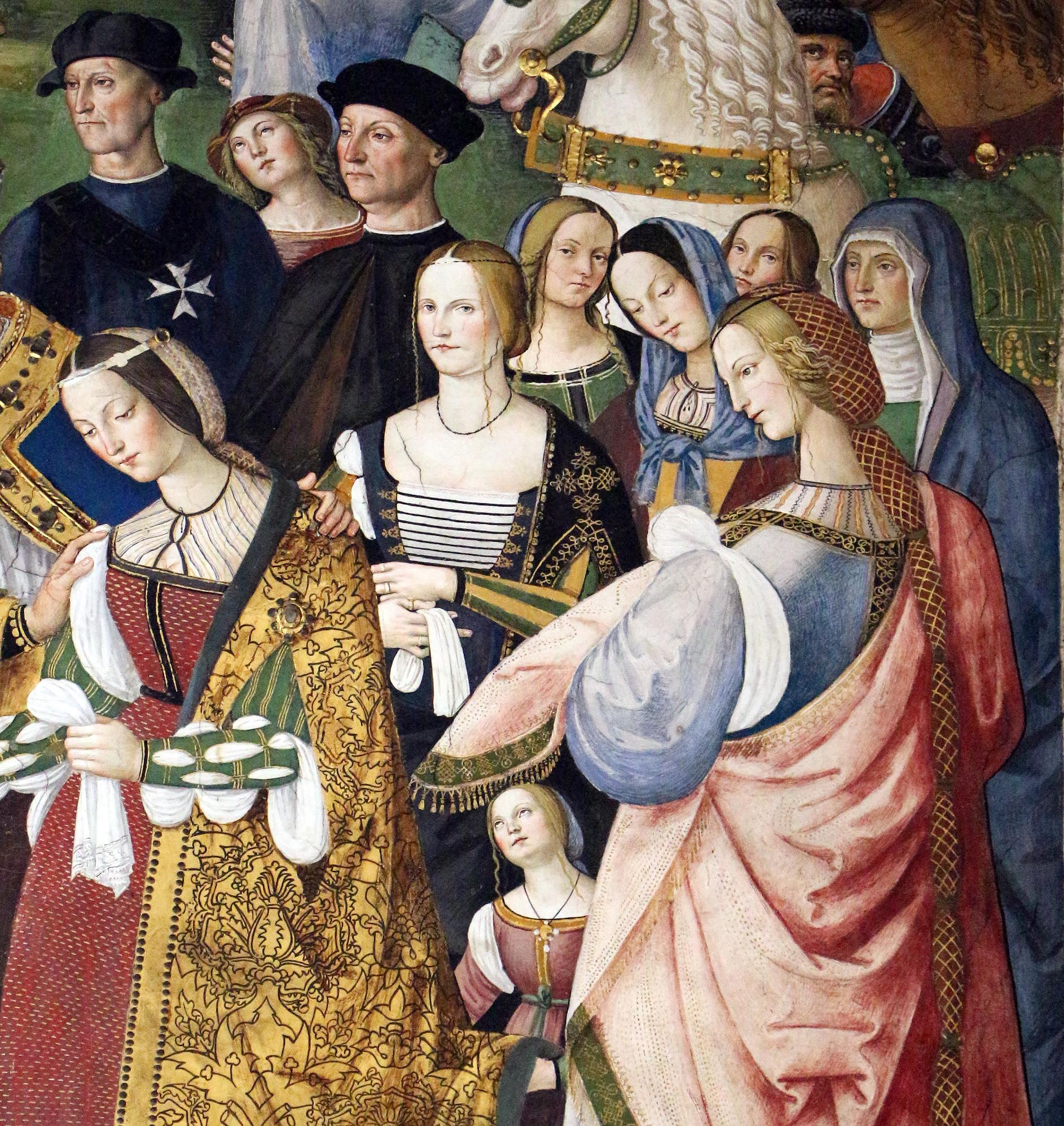 Cathedral (Siena) - Piccolomini Library - Frescos of Pius II, (detail)